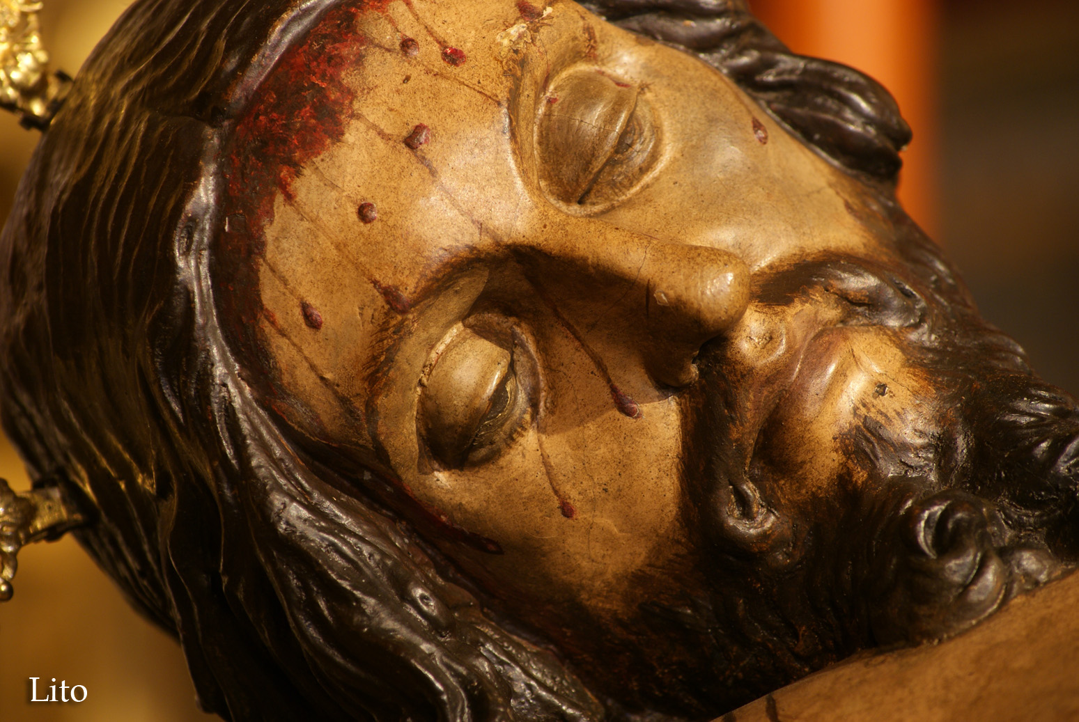 Santísimo Cristo del Mayor Dolor